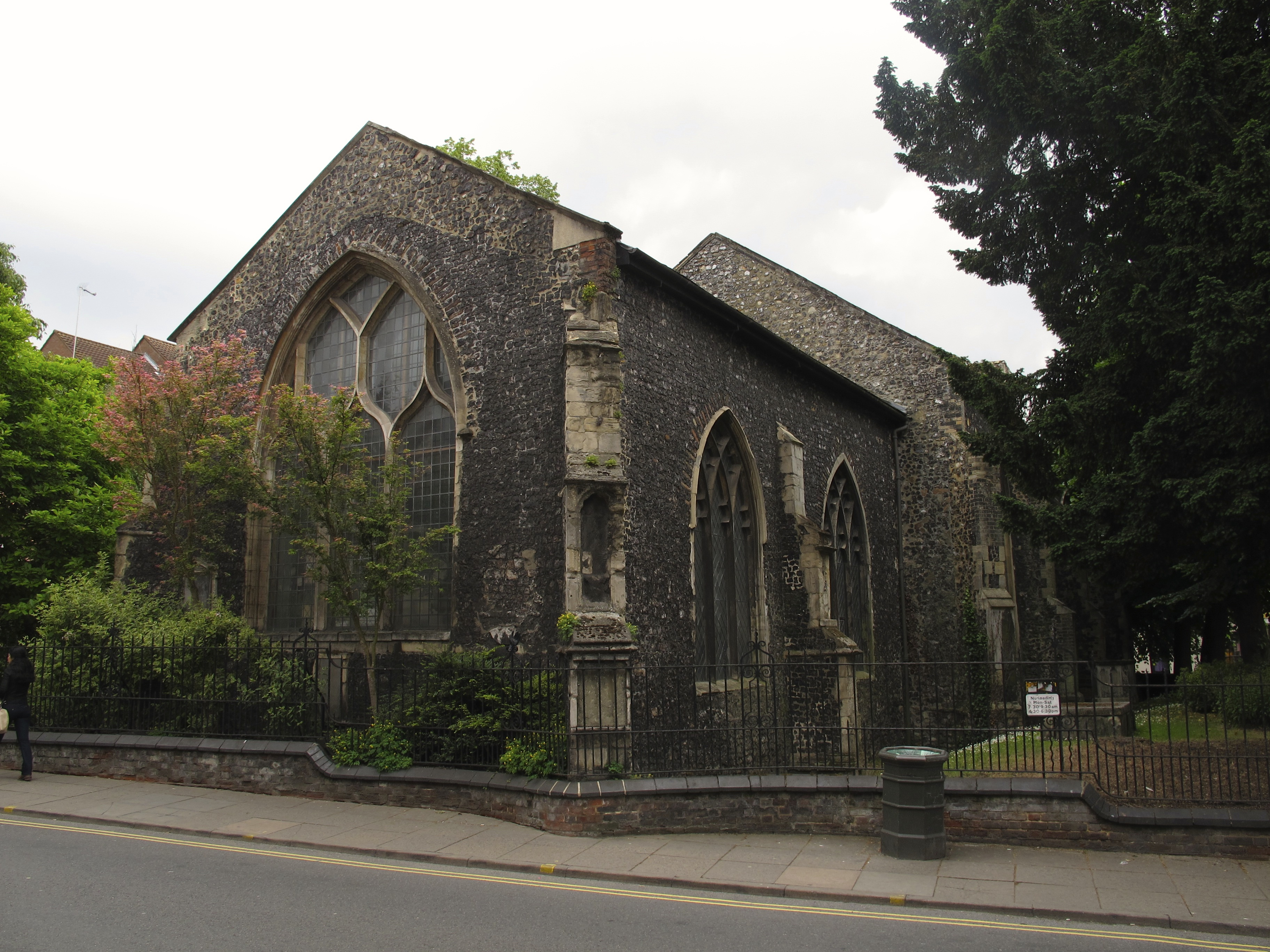 Former parish church of SS Simon and Jude, Norwich, Norfolk, seen from the northeast from Wensum Street